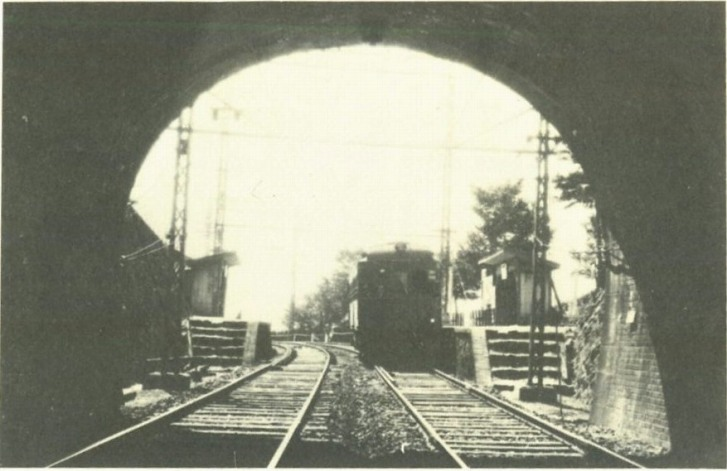 Train bound for Nara at Osaka Electric Tramway Kusaka Station, later Kusaezaka Station